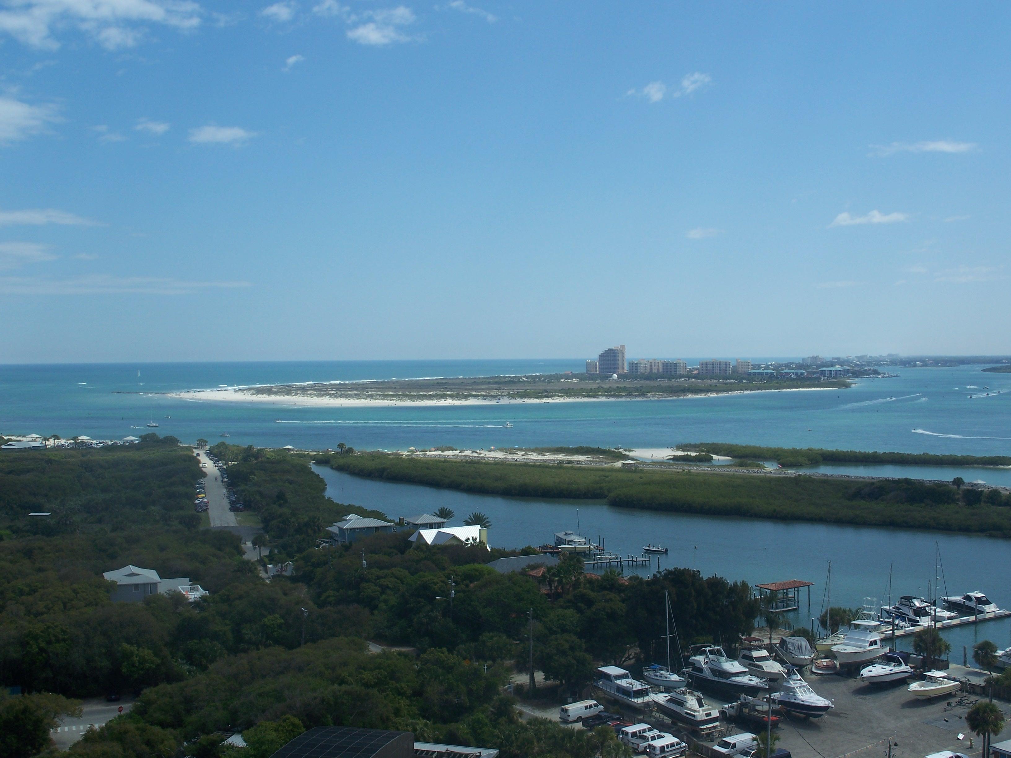 New Smyrna Beach, Florida: Peninsula